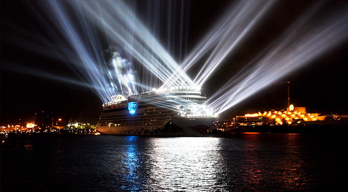 Aida Diva at night in Hamburg IMO Number: 9334856 MMSI Number: 247187700 Callsign: ICDH Length: 252 m Beam: 38 m